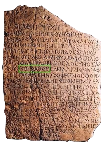 Tanais Tablet B, name Khoroáthos highlighted